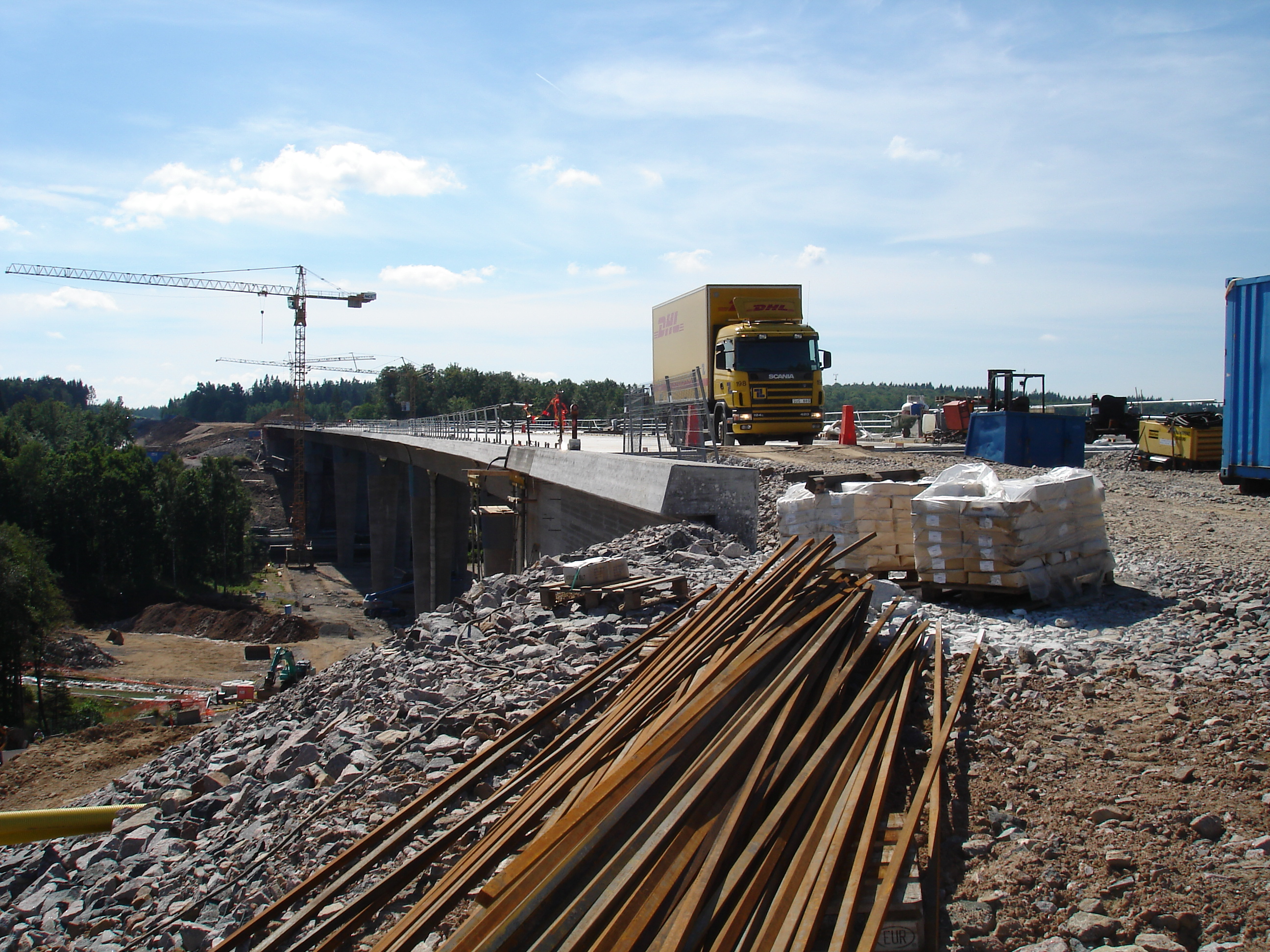 The motorway bridge "Laganbron" along E4 to the north of Markaryd in Sweden. Photograph was taken 2005-08-19 during the construction.